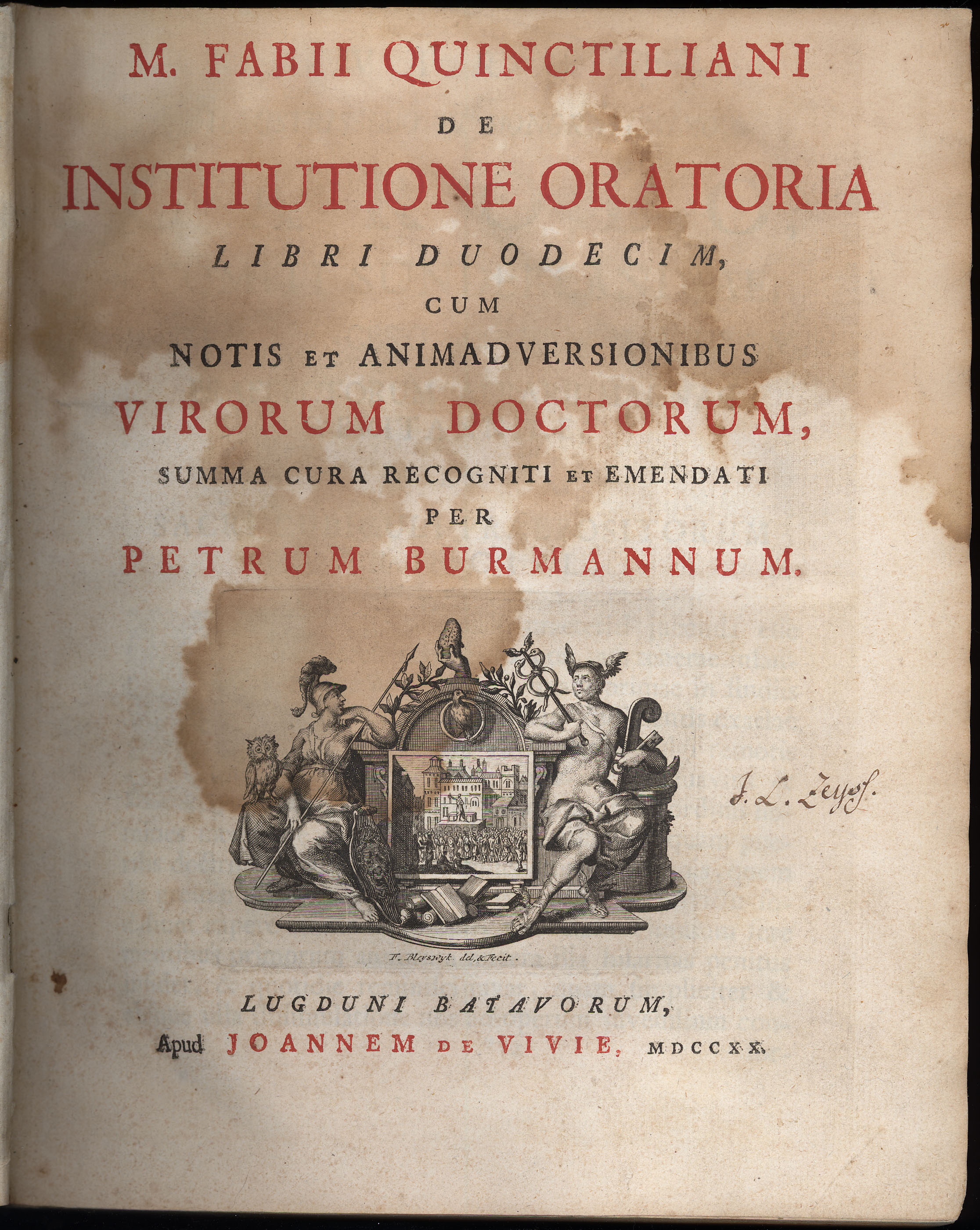 Title page of Quintilian’s Institutio oratoria, ed. by Pieter Burman(n) the Elder, Leiden 1720. Full title: M. Fabii Quinc[!]tiliani de institutione oratoria libri duodecim, cum notis et animadversionibus virorum doctorum, summa cura recogniti et emendati per Petrum Burmannum. Lugduni Batavorum, Apud Joannem de Vivie, MDCCXX. Copper engraving by F. Bleyswyk. Old owner notice: J. L. Zeyss.